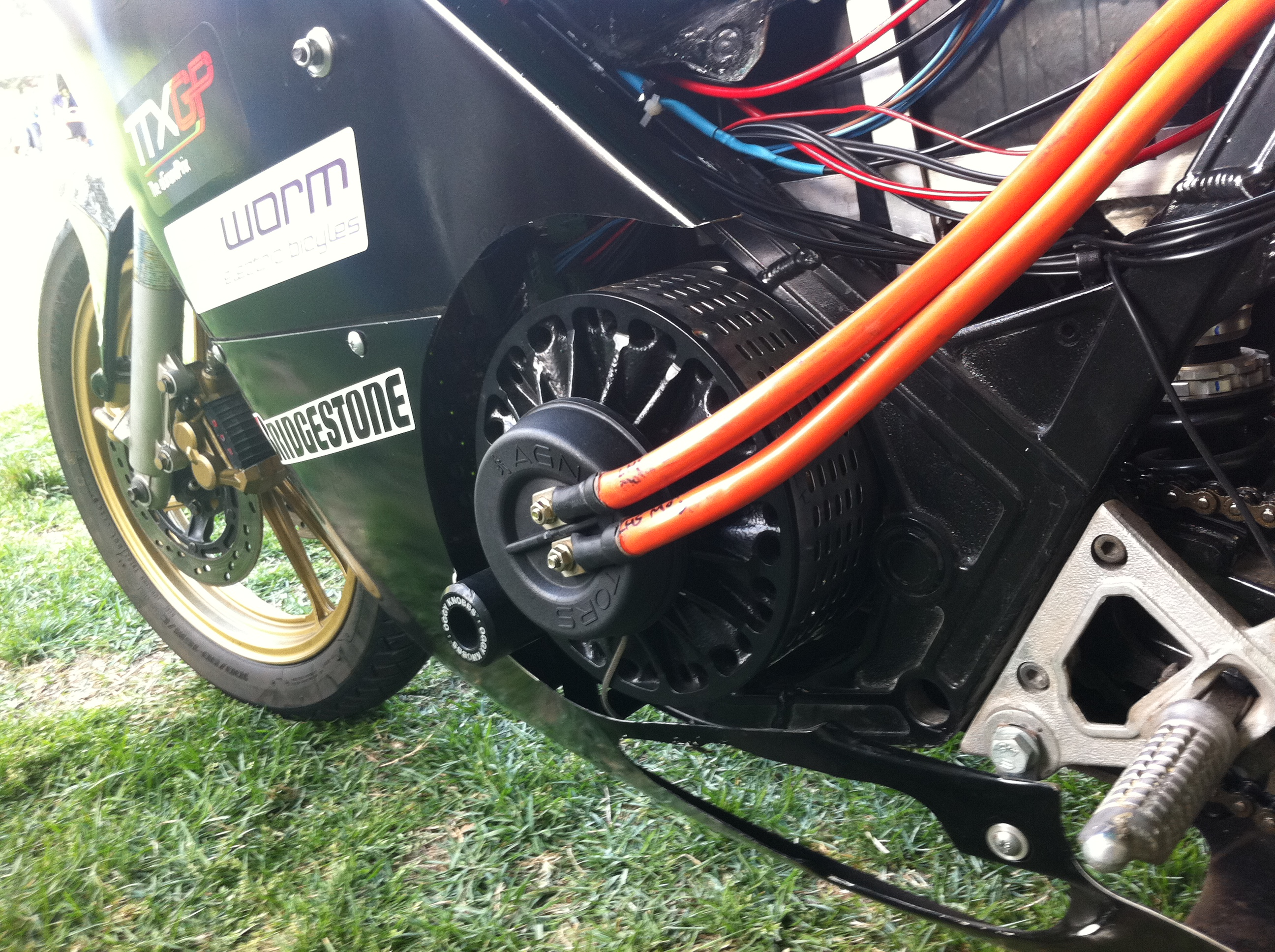 The Voltron electric motorcycle uses two brushed DC Lynch motors from Agni Motors, synchronised carefully from the one controller.